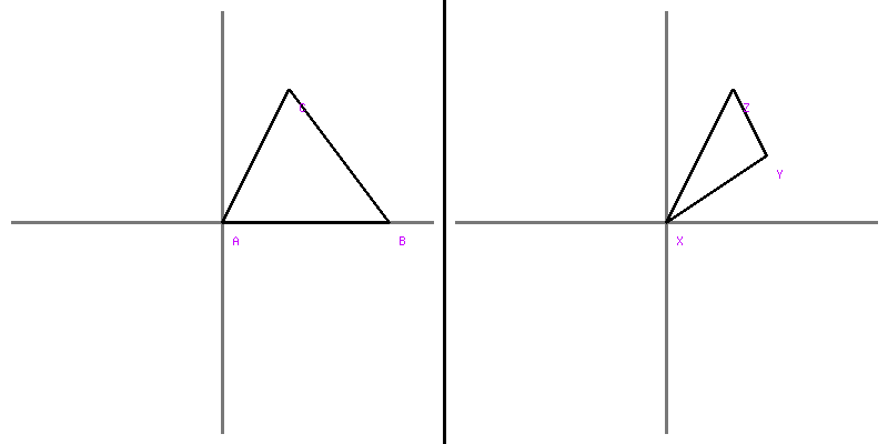 two triangles (illustration for Latin "Vector" page)